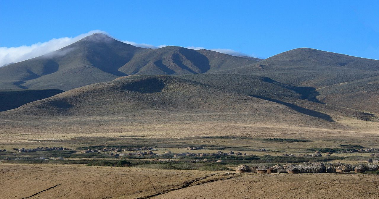 Massai village and Mont Lolmalasin, Tanzania